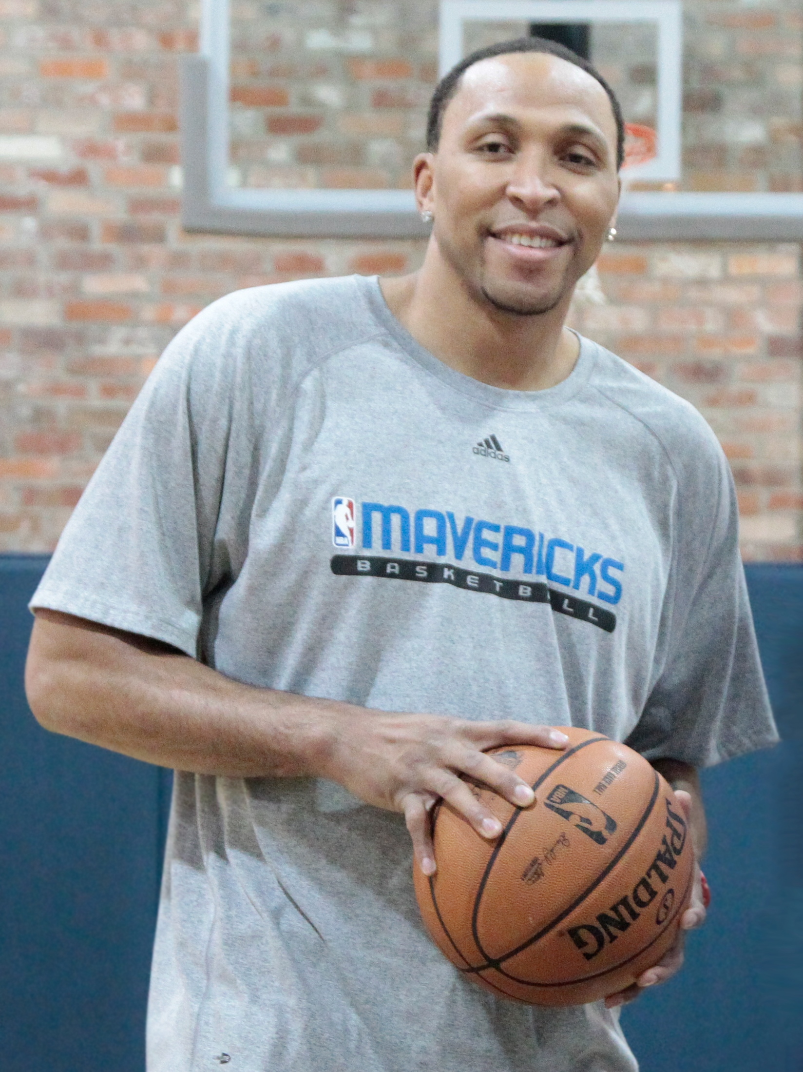 Shawn Marion, March 2013.